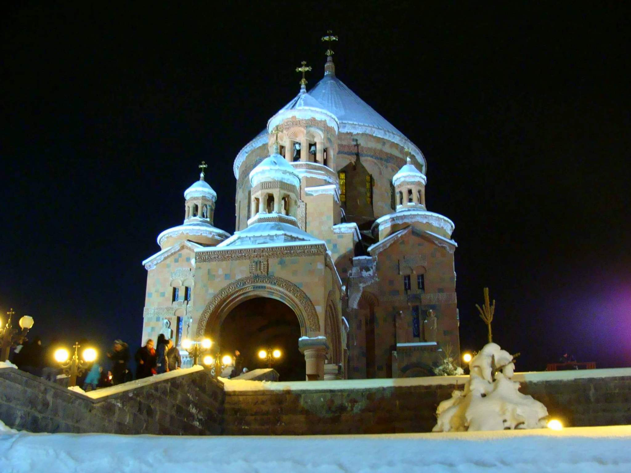 Saint Hovhannes church of Abovyan, 5 January 2016.